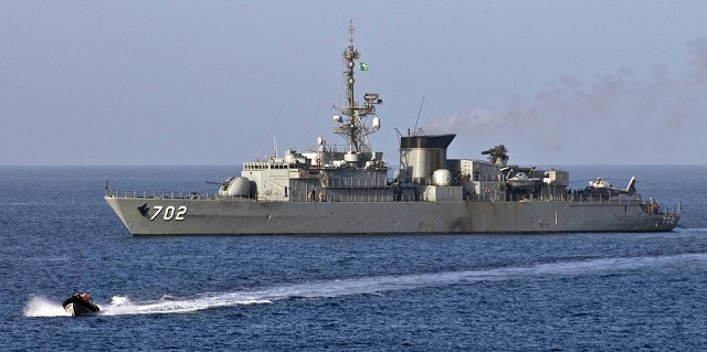 A Royal Saudi Naval Forces frigate Al Madinah-class 702